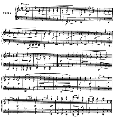 Diabelli's Waltz, by Anton Diabelli, on which the variations in Vaterländischer Künstlerverein are based.